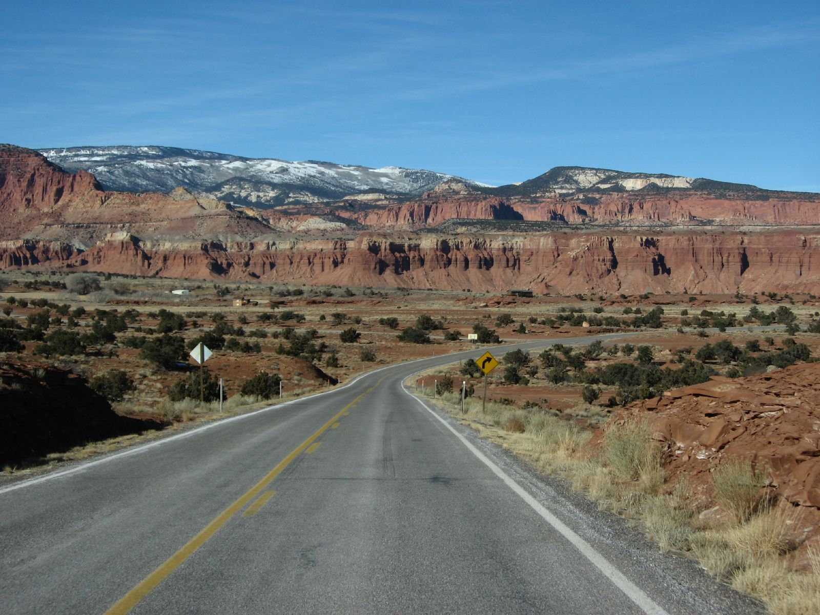 Utah State Route 24 Between Capitol Reef National Park and Torrey, Utah